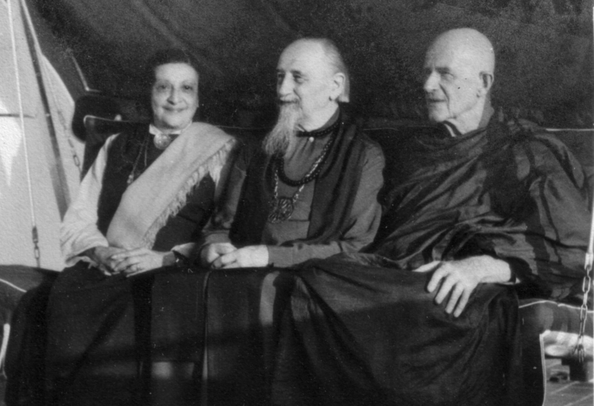 Li Gotami, Lama Govinda, Nyanaponika Thera. Probably taken in Germany or Switzerland. Late 1960s or early 1970s. Photographer unknown. From Forest Hermitage Archives.